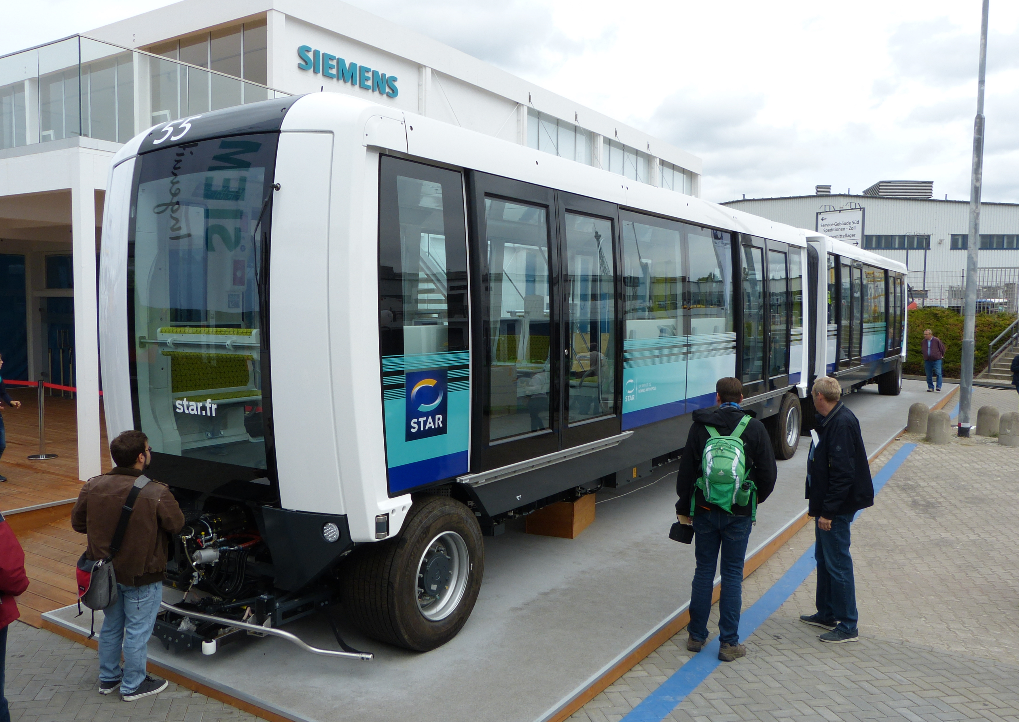 New CityVal train for Rennes, at Innotrans 2018 in Berlin, Germany